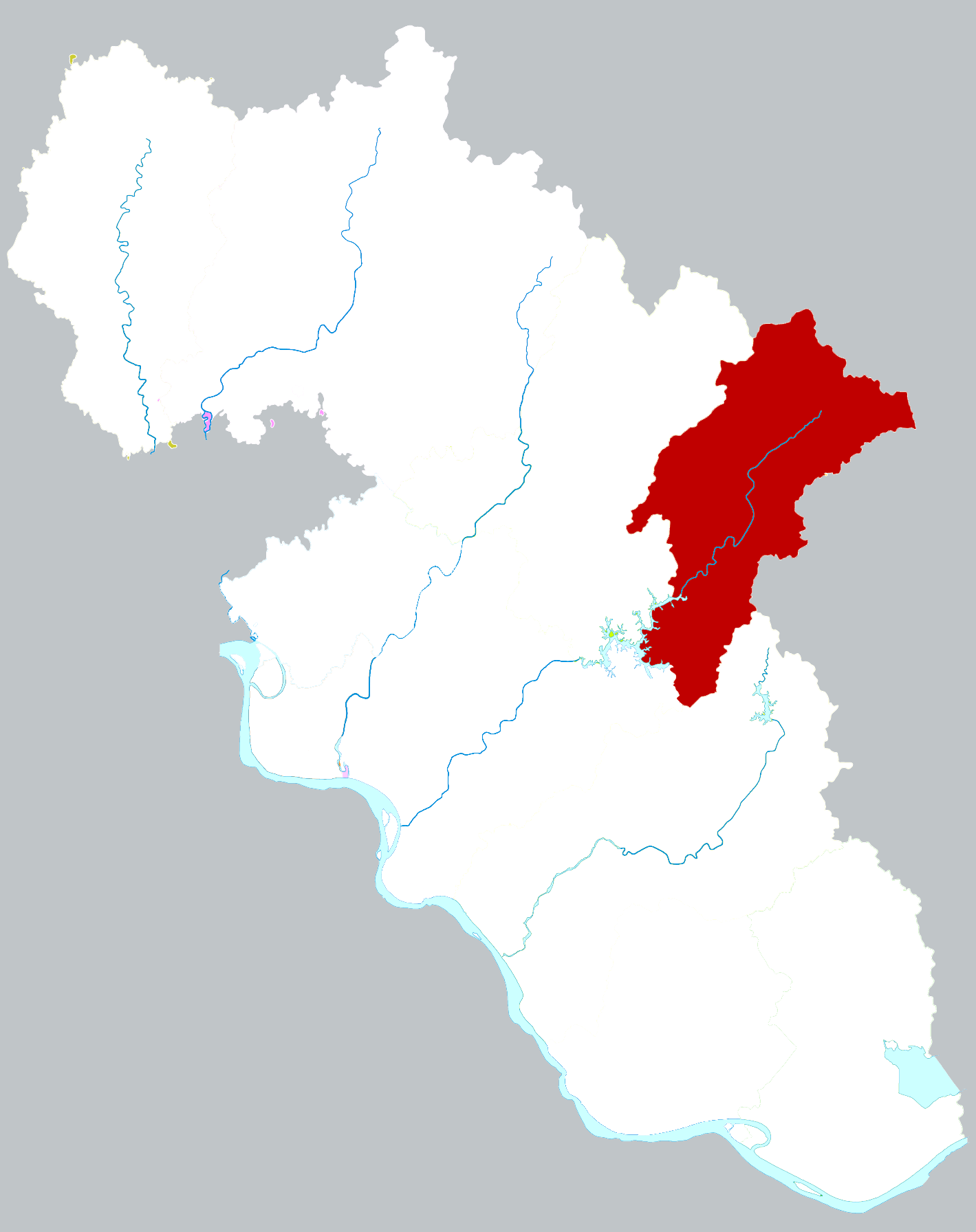 Location of Yingshan county in Huanggang city, China